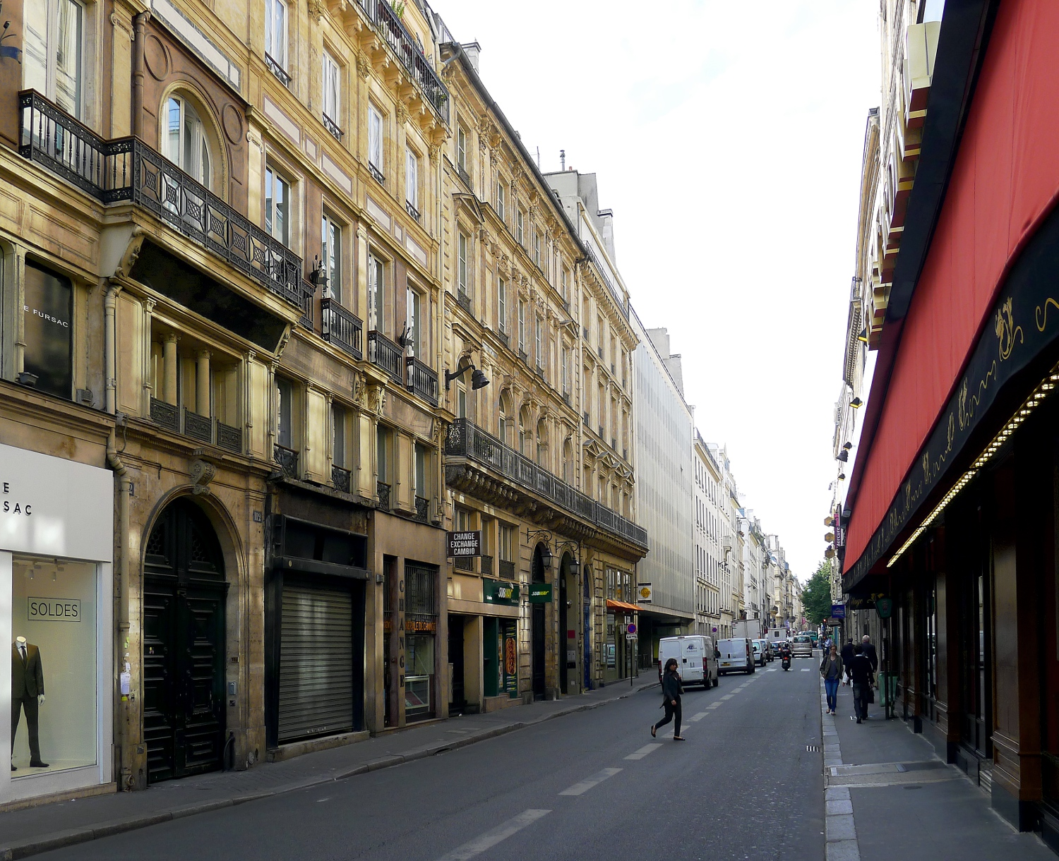 Richelieu street - Paris